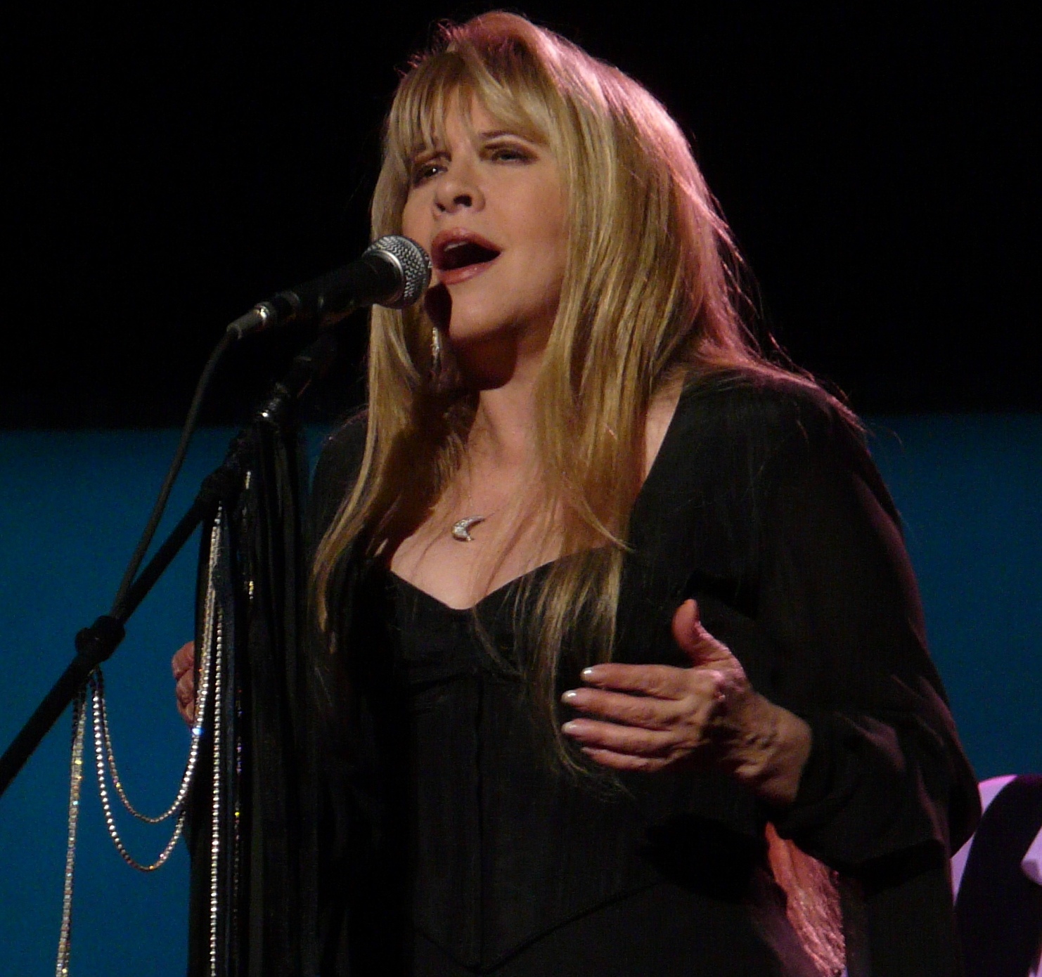 Stevie Nicks, Live with Fleetwood Mac on March 3, 2009 in St. Paul, MN at the Xcel Energy Center. Photo by Matt Becker